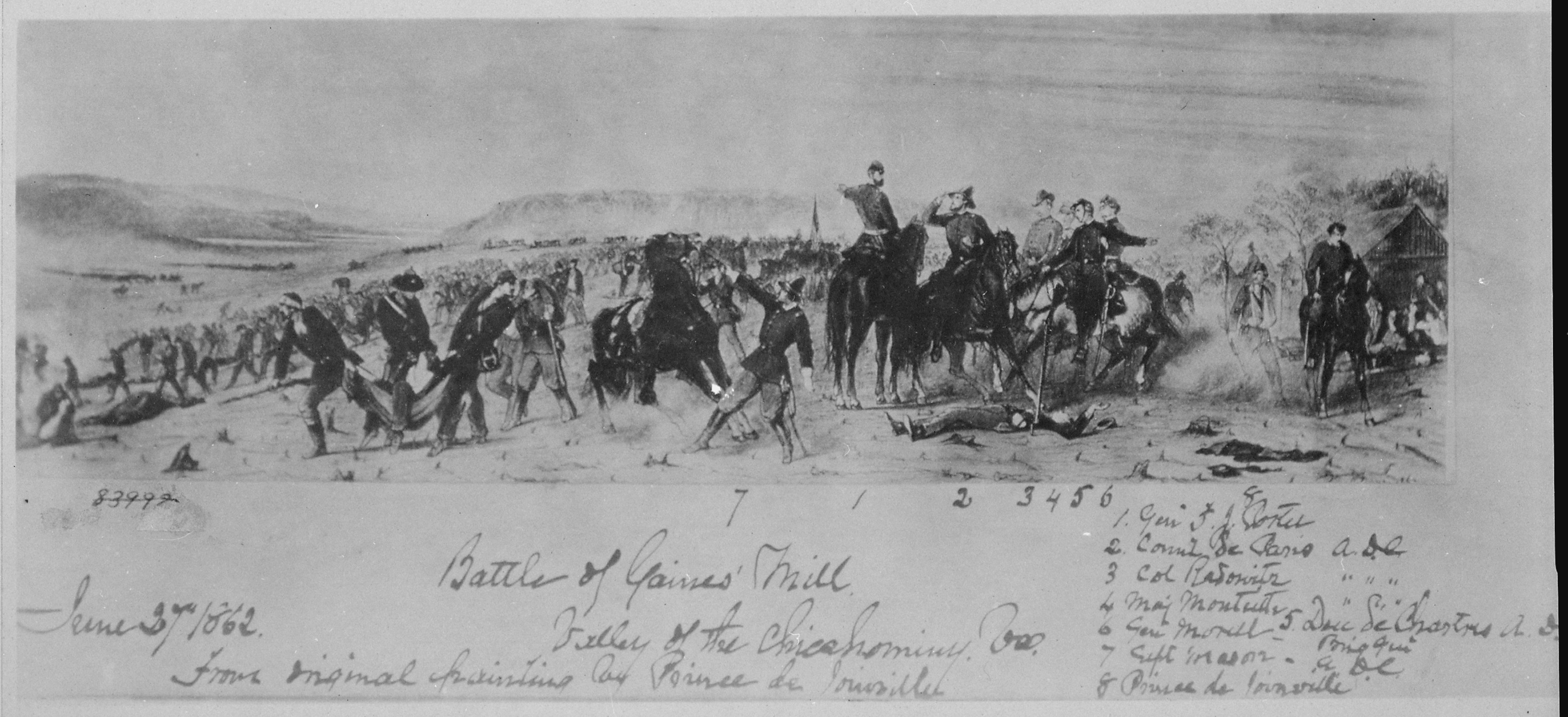 General notes: Artwork